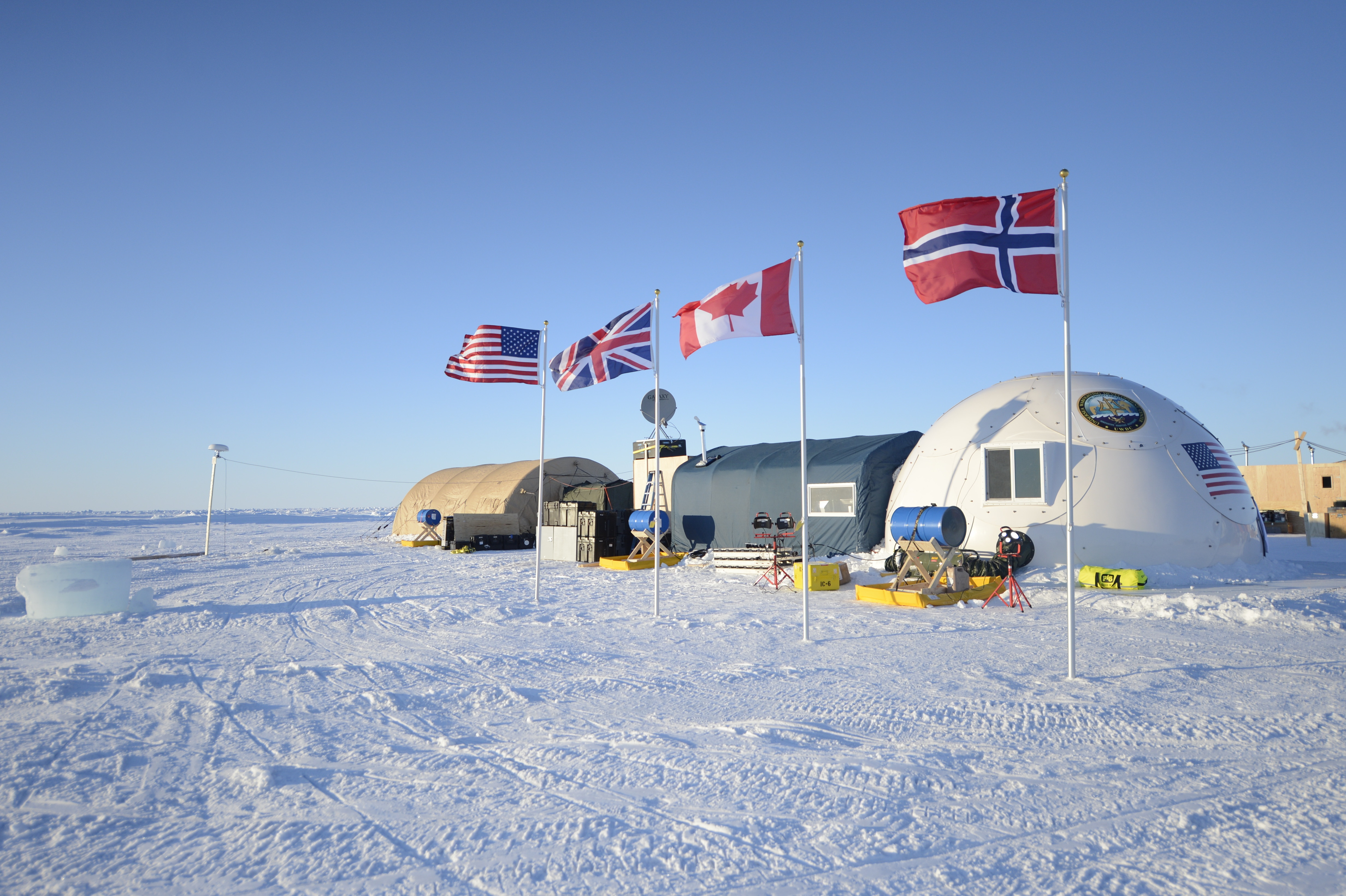 ARCTIC CIRCLE (March 13, 2016) Ice Camp Sargo, located in the Arctic Circle, serves as the main stage for Ice Exercise (ICEX) 2016 and will house more than 200 participants from four nations over the course of the exercise. ICEX 2016 is a five-week exercise designed to research, test, and evaluate operational capabilities in the region. ICEX 2016 allows the U.S. Navy to assess operational readiness in the Arctic, increase experience in the region, advance understanding of the Arctic environment, and develop partnerships and collaborative efforts. (U.S. Navy photo by Mass Communication Specialist 2nd Class Tyler Thompson/Released)160311-N-QA919-061 Join the conversation: navylive.dodlive.mil